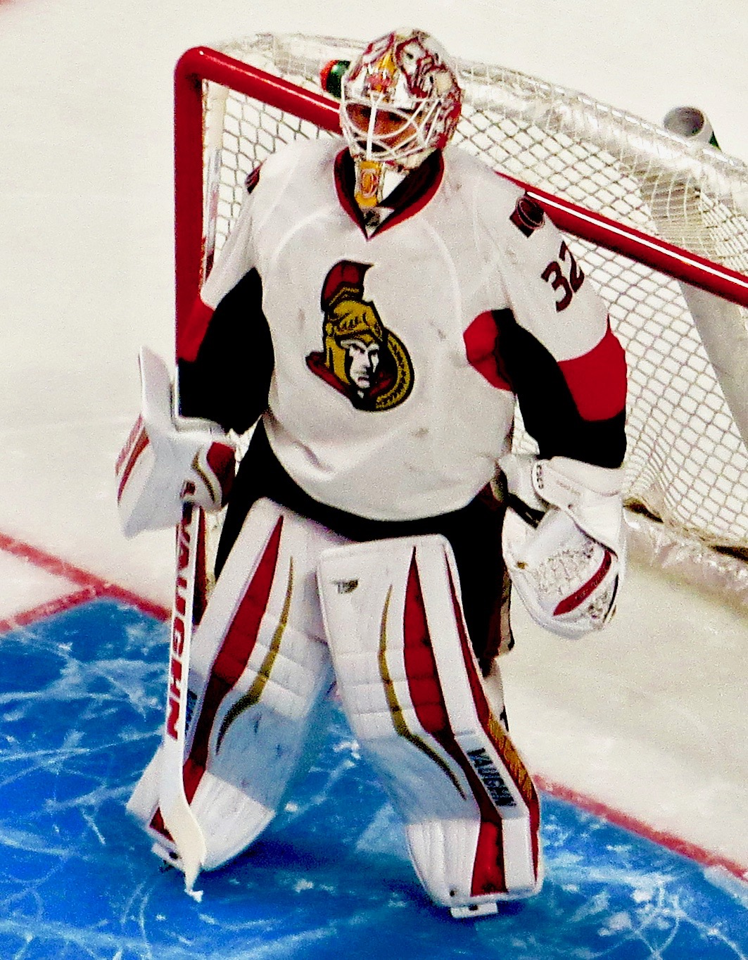 Chris Driedger (born May 18, 1994) is a Canadian ice hockey goaltender. He is currently playing as a prospect to the Ottawa Senators of the National Hockey League (NHL). Driedger was selected by the Senators in the third round (76th overall) of the 2012 NHL Entry Draft.